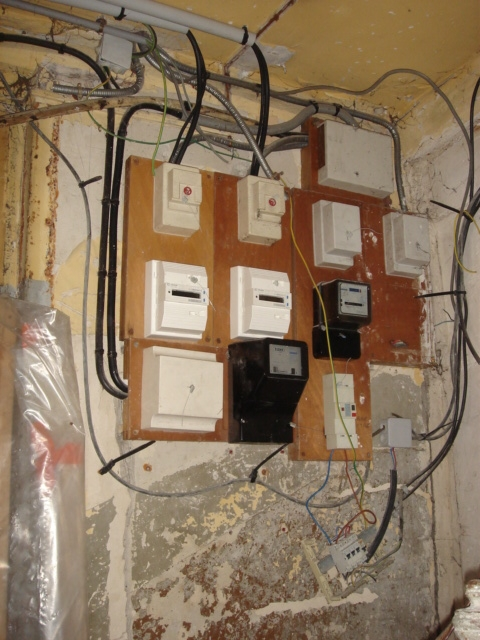 Electric panel in an 18th century building in the centre of a city. (Slums.) Such an installation is acceptable only as temporary wiring.